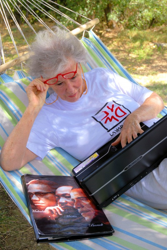 Madeleine Fischer les actress en 2013.